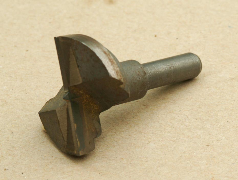 35mm diameter hinge sinker drill bit A specialist bit for European kitchen fittings. Tungsten Carbide. Tool made about 1995. Photo made UK, June 2005.